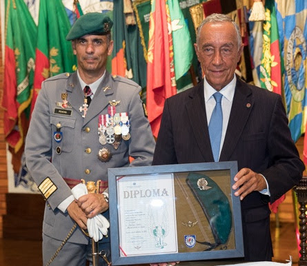 The President of the Portuguese Republic, being awarded an honorary Paratrooper Qualification Degree.